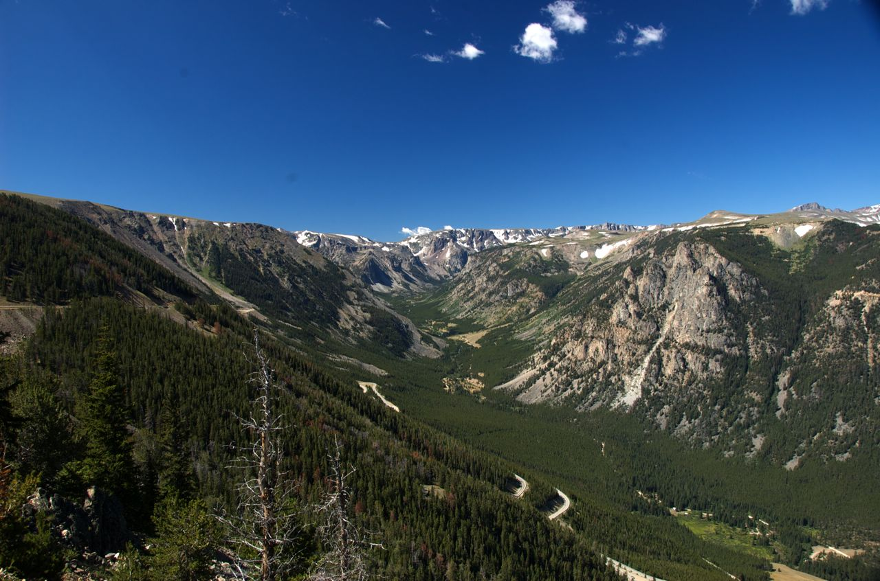 The Beartooth Highway and Beartooth Mountains — from the Vista Point overlook in southern Montana. The Beartooth Highway is a scenic section of U.S. Route 212, climbing 3,000 feet (914 m) here over the Beartooth Mountains, with the highest elevation at Beartooth Pass (10,947 ft, 3,345 m).